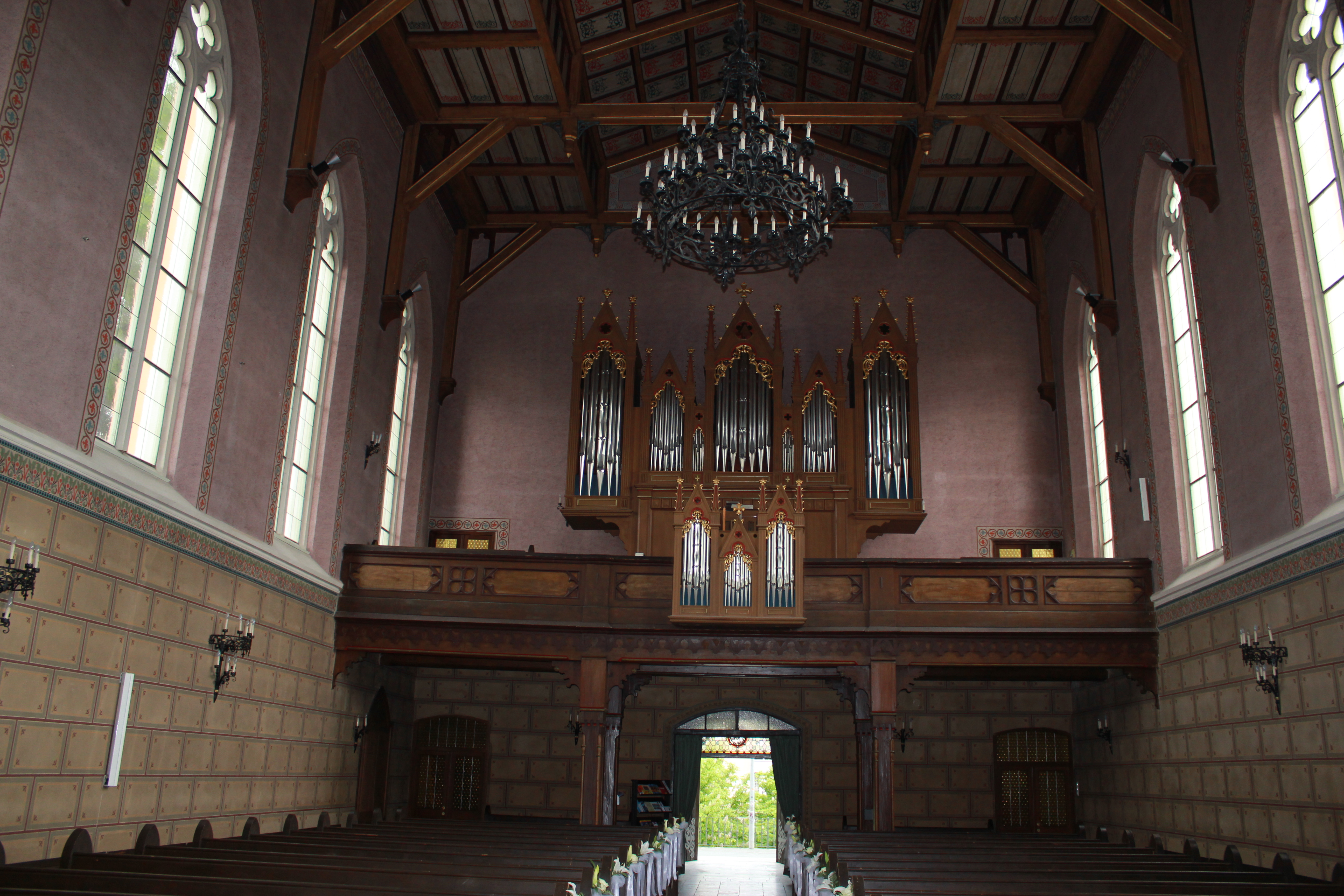 Lutherian Saint John church in Klagenfurt - view to the organloft